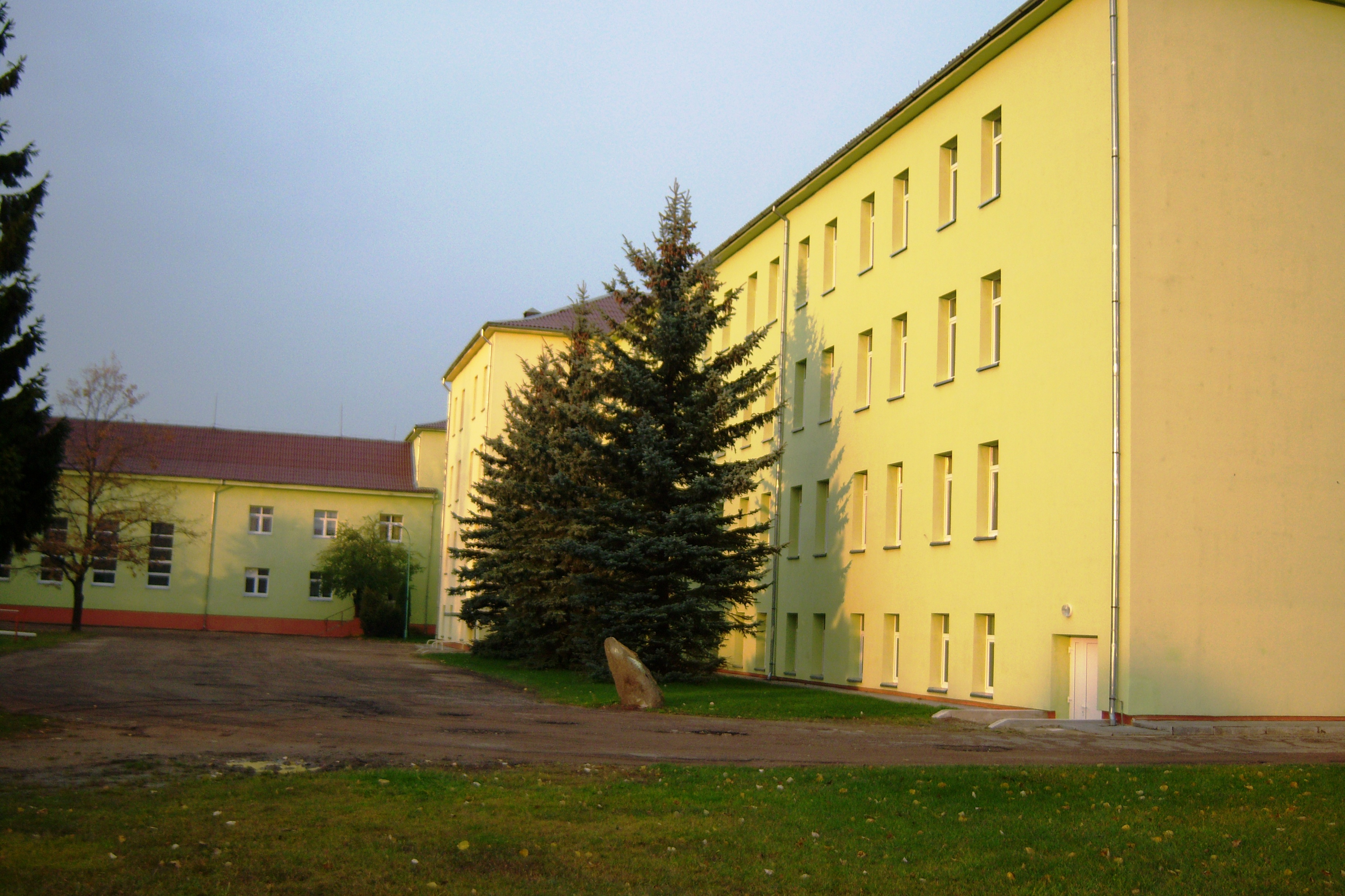 Skuodas, P. Žadeikis gymnasium, back facade, Lithuania